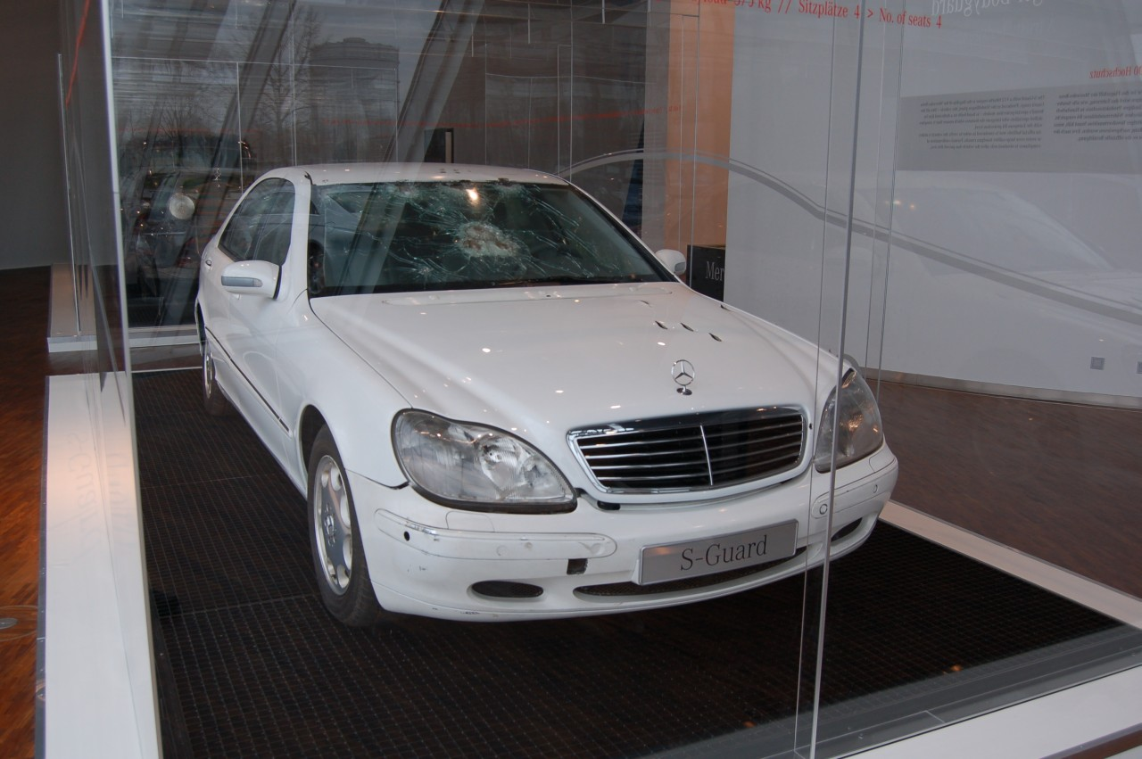 An armoured S-class complete with bullet holes at the Mercedes-Benz museum, Stuttgart.